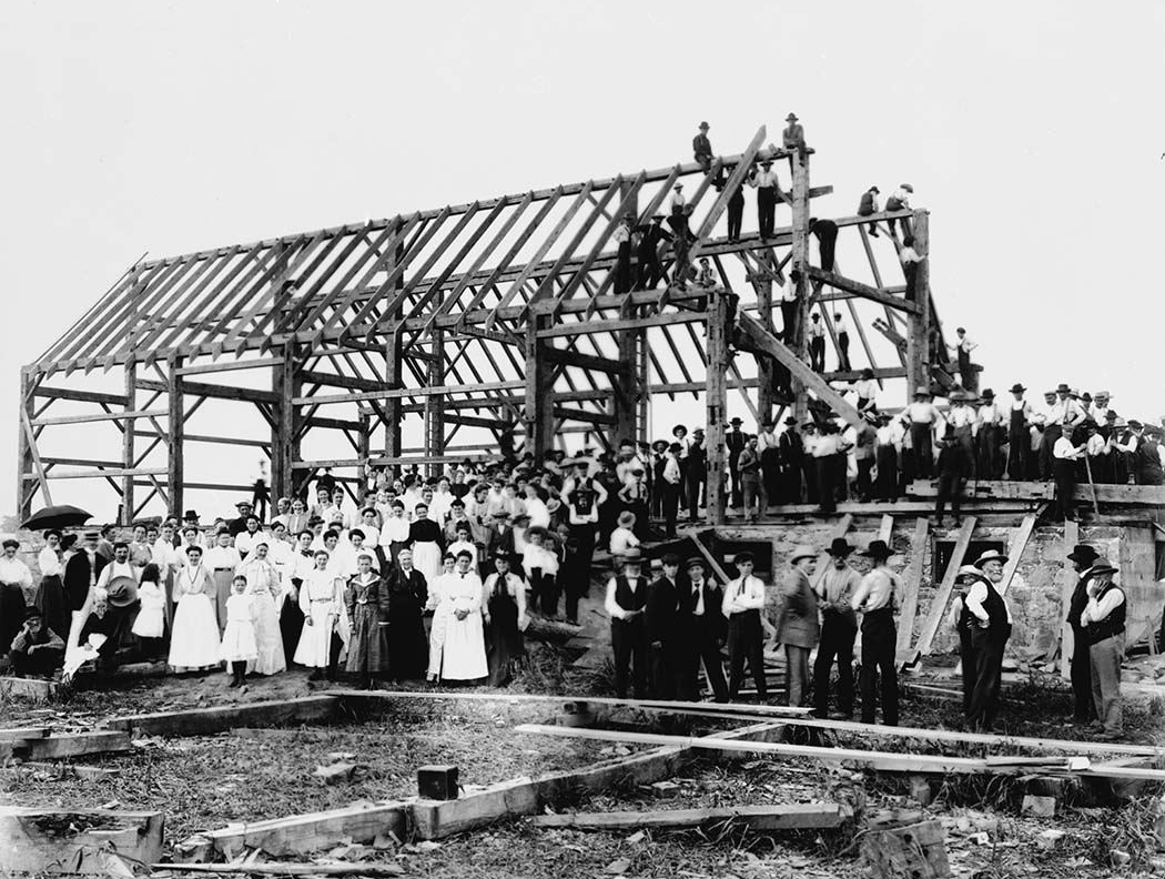 Barn raising in Lansing (now North York City Centre). Toronto, Canada.